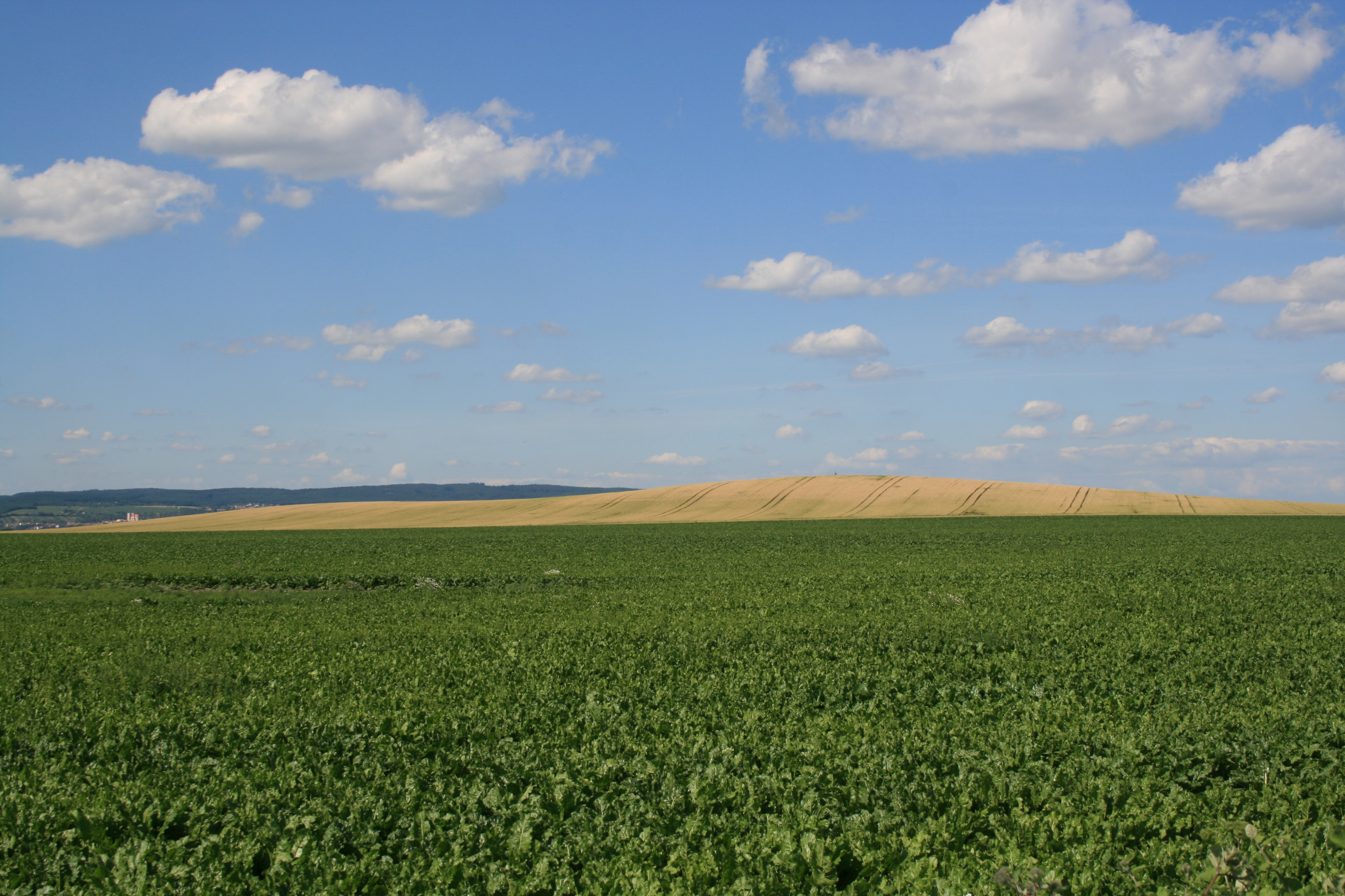 Staré vinohrady hill at the battlefield of Austerlitz. View from the road Prace-Křenovice.